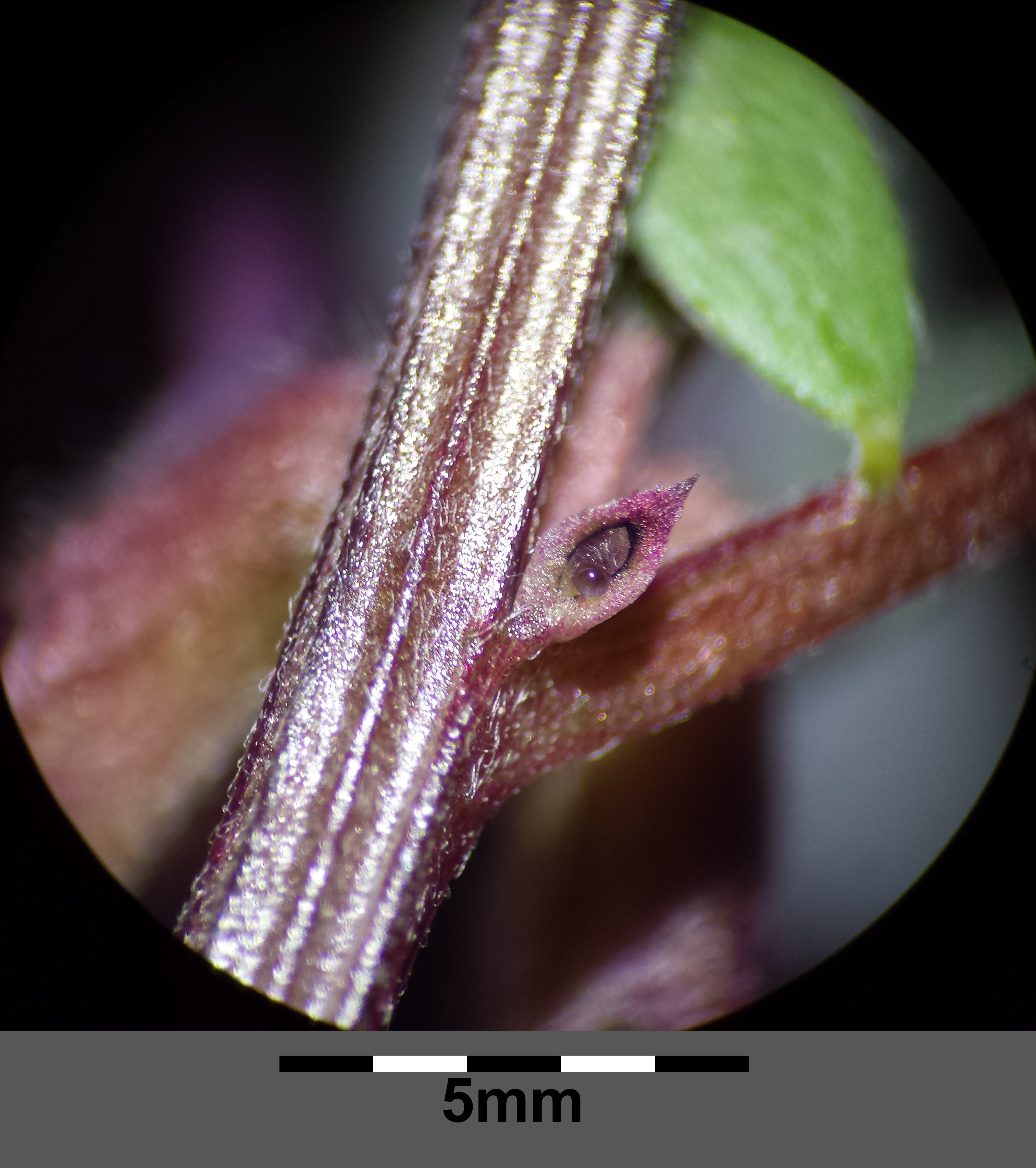 Stipe with stipule with nectary Taxonym: Vicia pannonica subsp. striata ss Fischer et al. EfÖLS 2008 ISBN 978-3-85474-187-9 Location: near Marchfeldkanal near Groß-Jedlersdorf, Vienna-Floridsdorf - ca. 160 m a.s.l. Habitat: fallow land